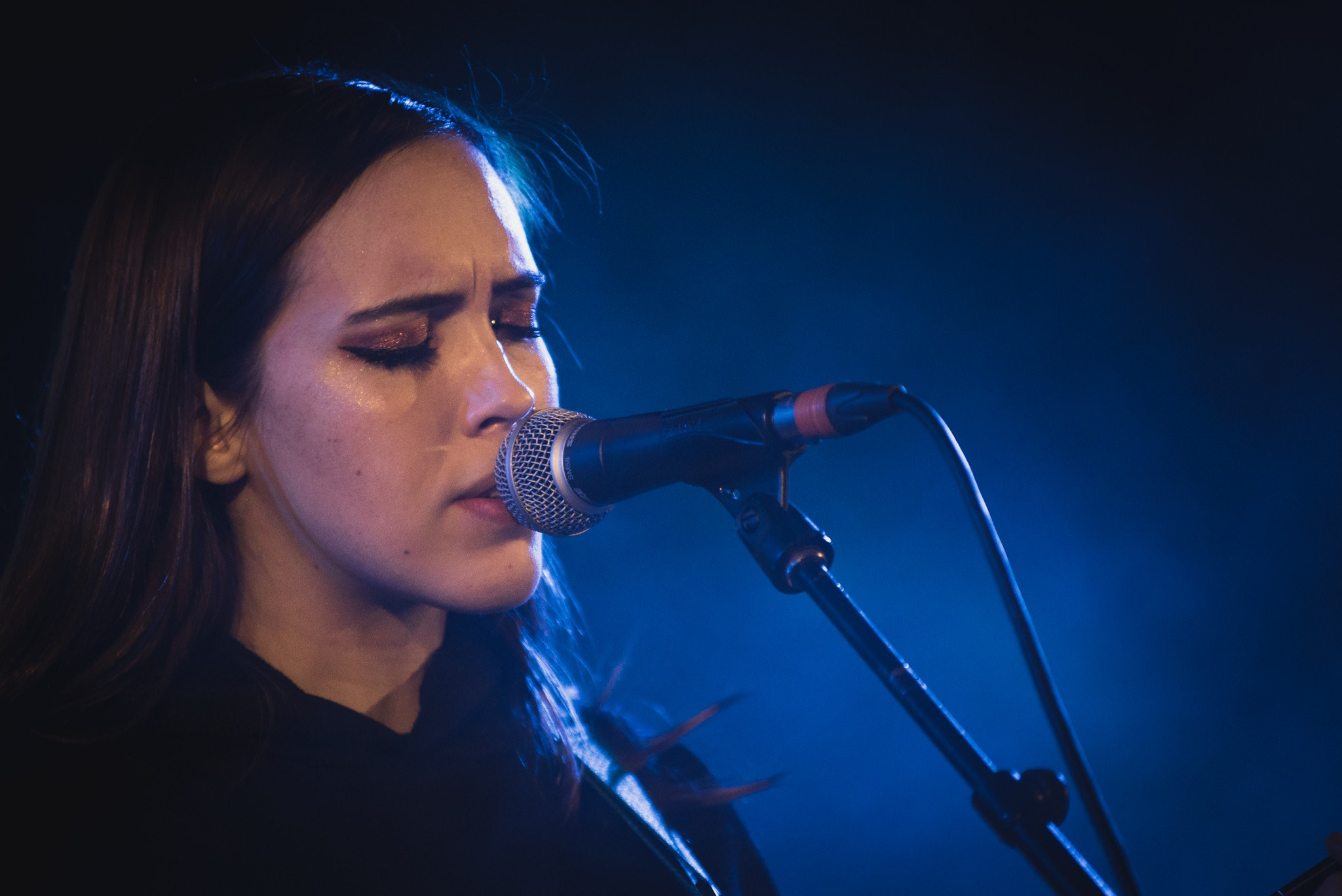 Rockaway Beach: Soccer Mummy